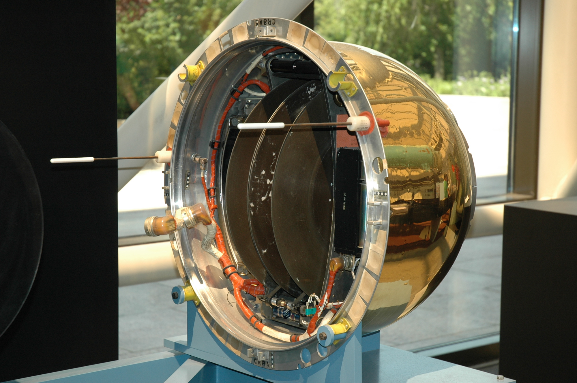 Recovery vehicle of Corona reconnaissance satellite (displayed at the National Air and Space Museum, Washington D.C.)